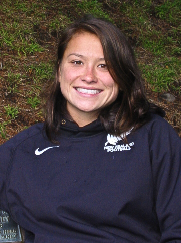 New Zealand soccer player Alexandra Riley.